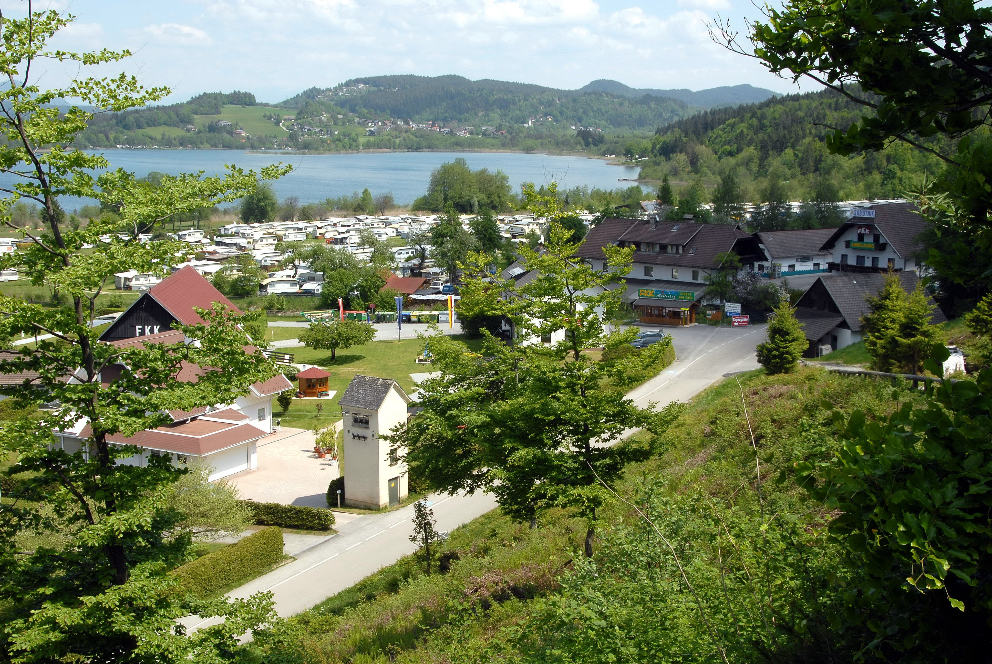 Dobein, south part of Lake Keutschach with campsites in the municipality Keutschach am See, district Klagenfurt-Land, Carinthia, Austria